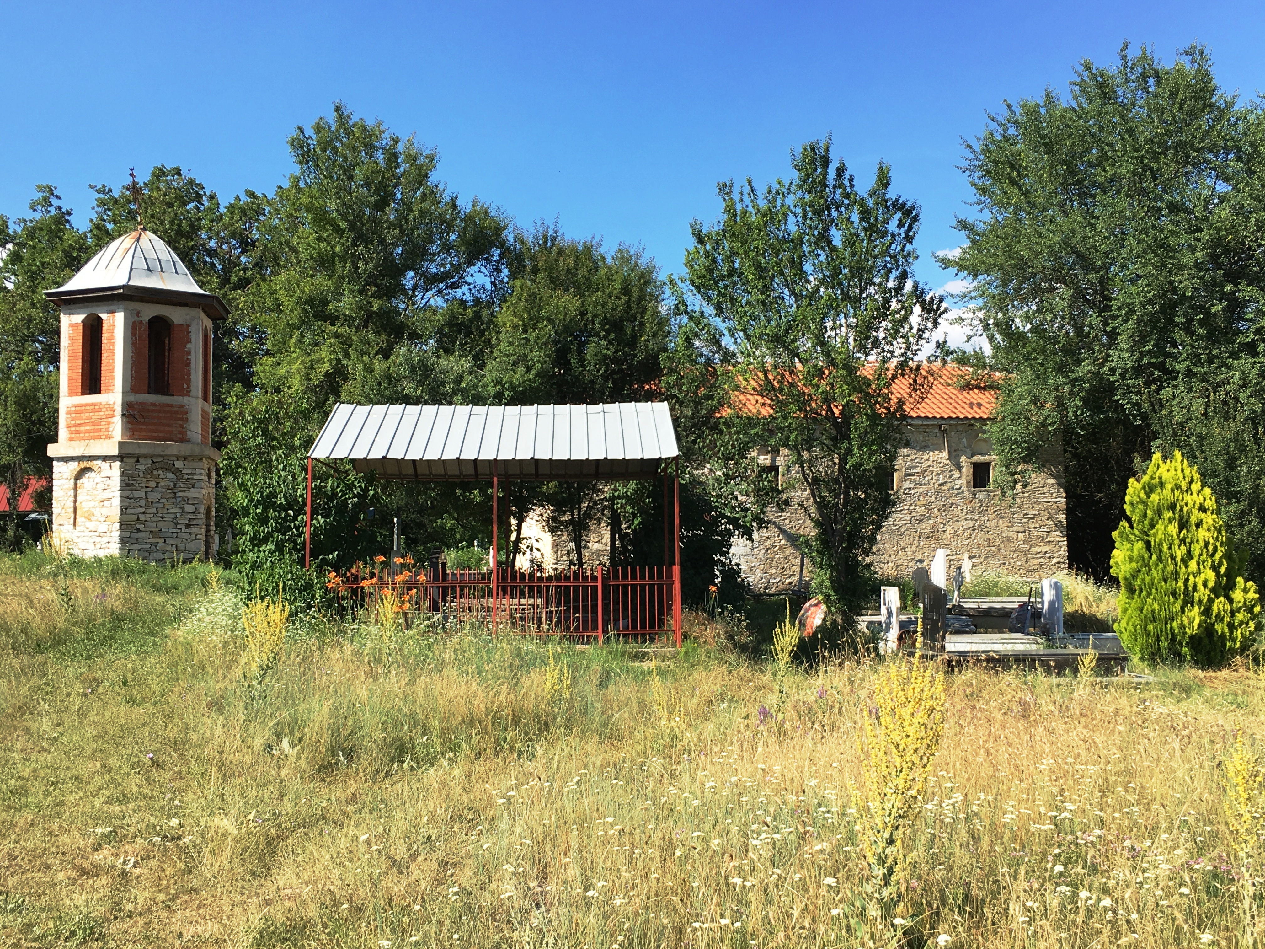 St. Demetrius Church in the village of Lokvica